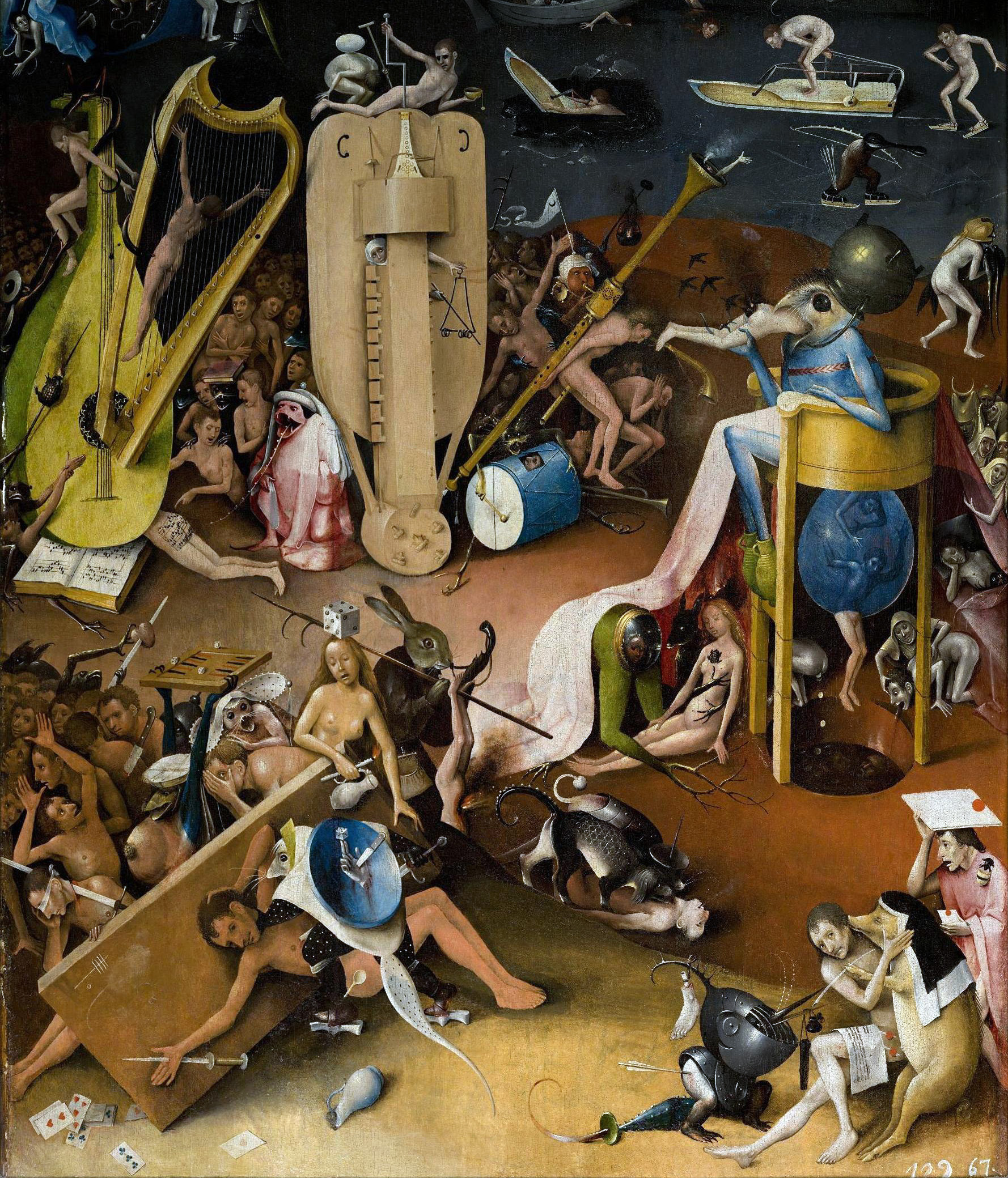 This detail of the painting more or less corresponds with the portion used for the cover of the album Deep Purple.